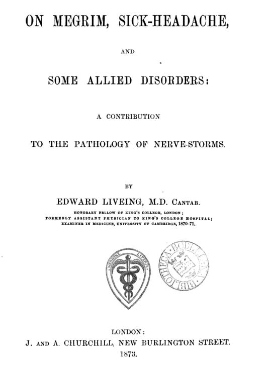 First page of the "On megrim, sick-headache and some allied disorders, a contribution to the pathology of nerve-storms, London, J. and A. Churchill, New Burlington Street, 1873" book